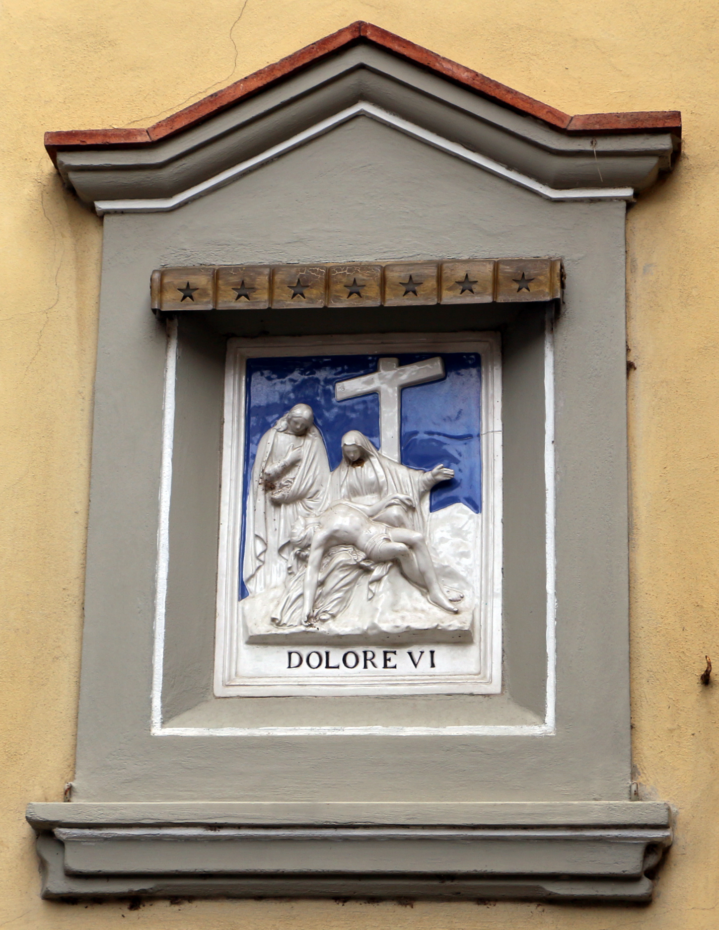 Sant'Ilario a Colombaia (Florence)